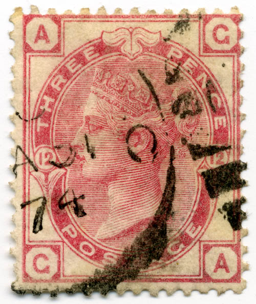 Scan of United Kingdom 3-pence stamp of 1873